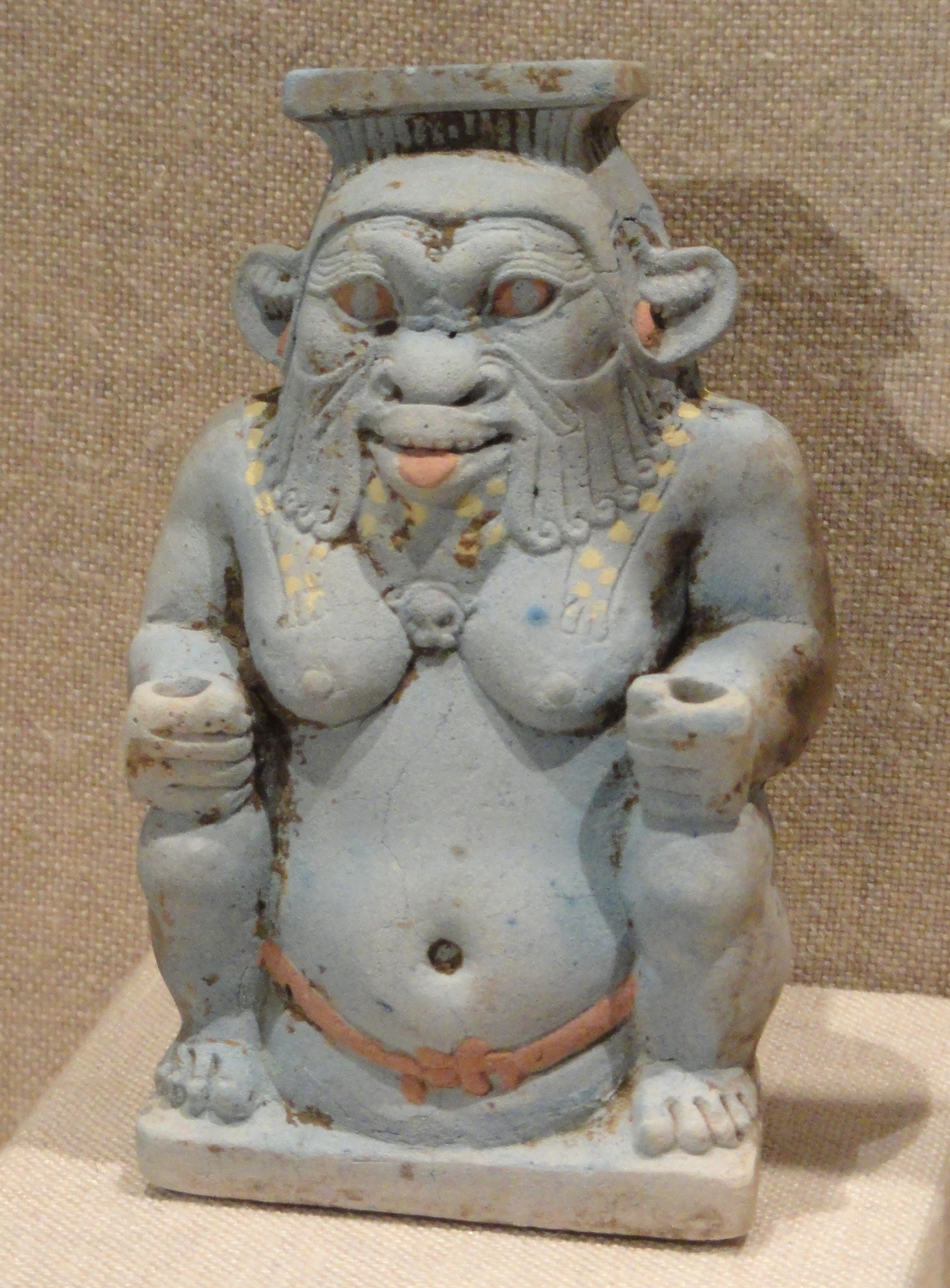 Exhibit in the Cleveland Museum of Art, Cleveland, Ohio, USA. This artwork is old enough so that it is in the public domain.